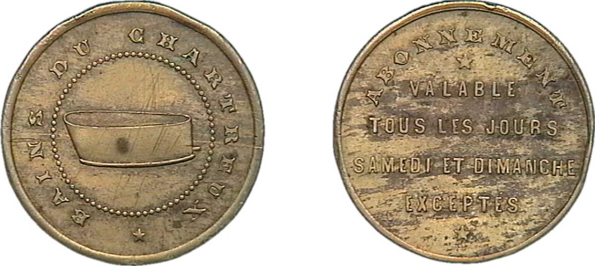 Jeton de la corporation des bains de Chartreux